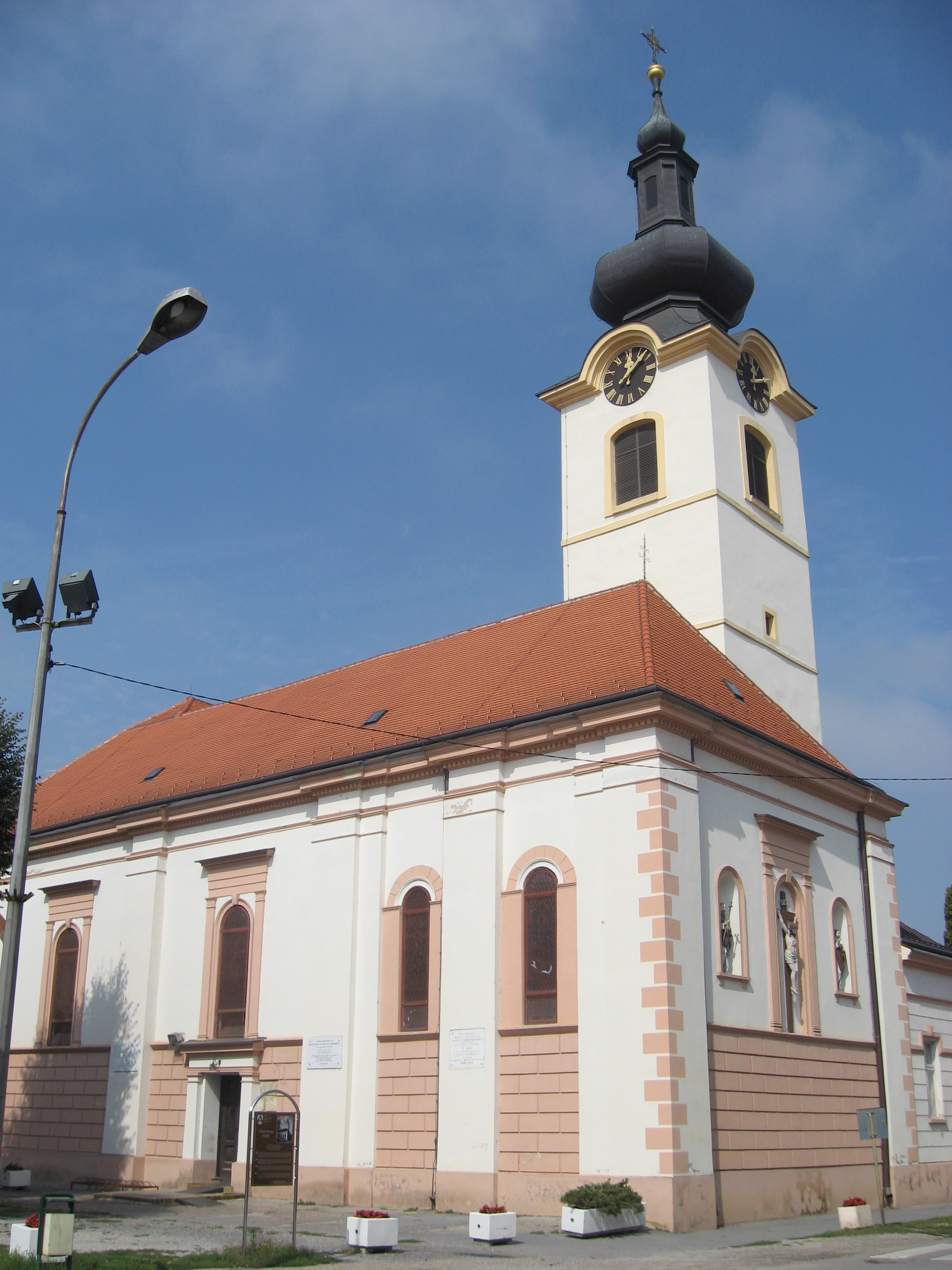 Church of St Nicolas in Koprivnica (Croatia)